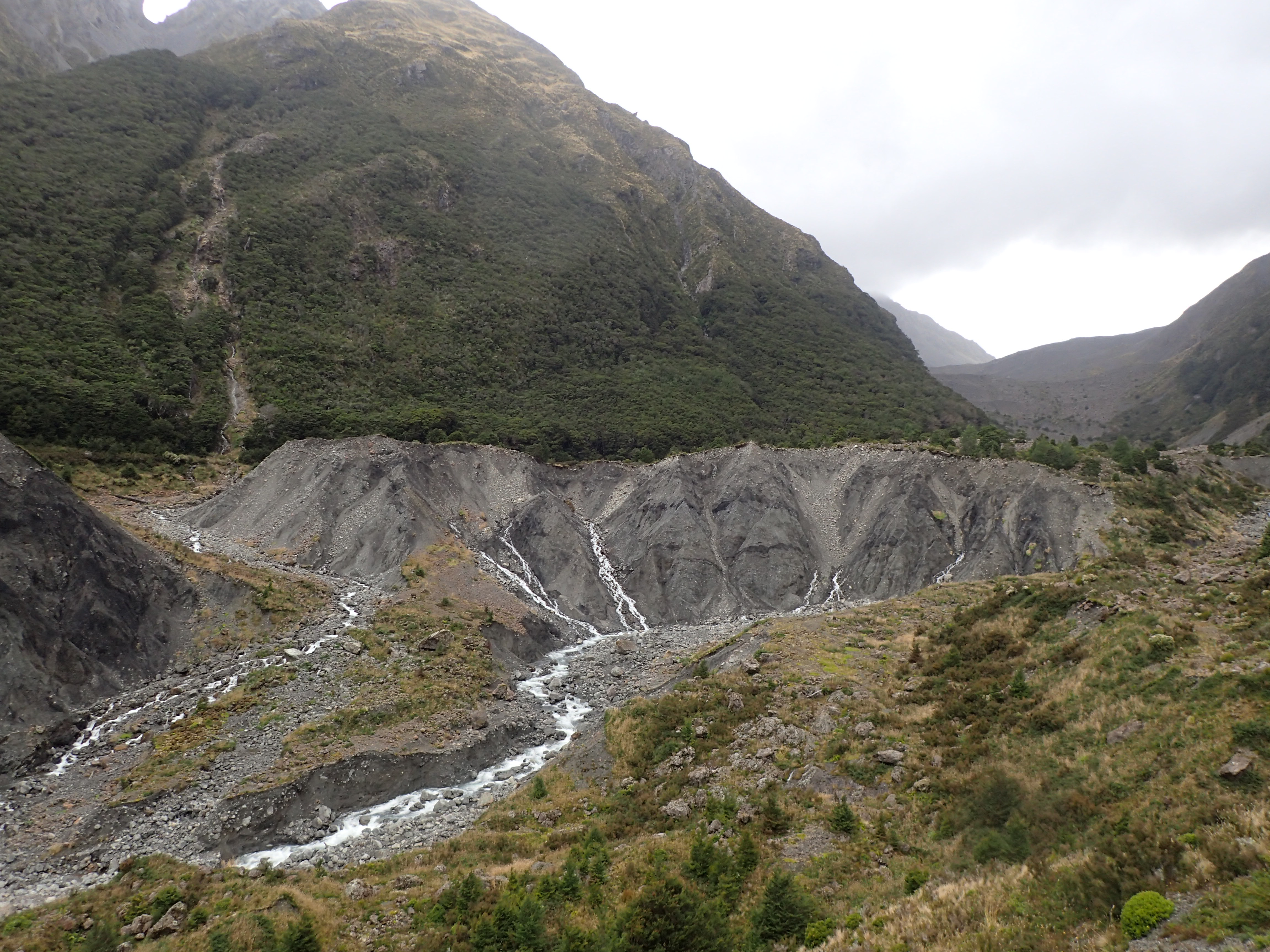 Taruahuna Pass (Headwaters of the Otehake River West Branch New Zealand) is a Main Divide Pass connecting the West and East Coast Of the South Island New Zealand